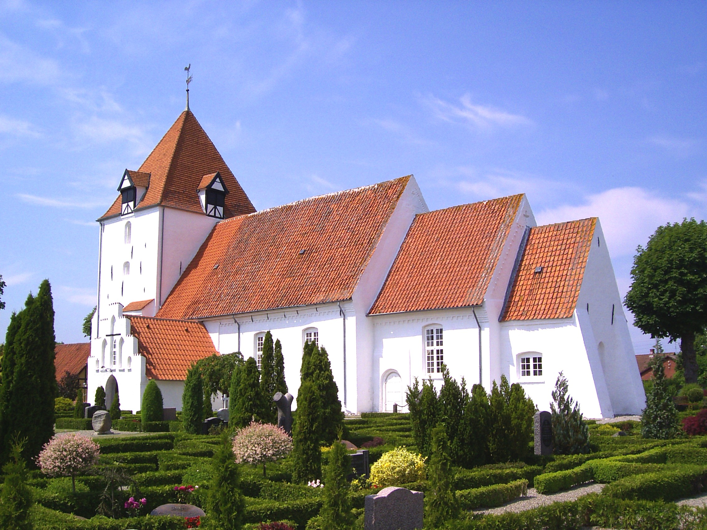 Church in Sandby, Community of Ravnsborg, diocese of Lolland-Falster. Date: 2006.07.12 Author: Sir48